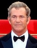 Mel Gibson at the Cannes film festival